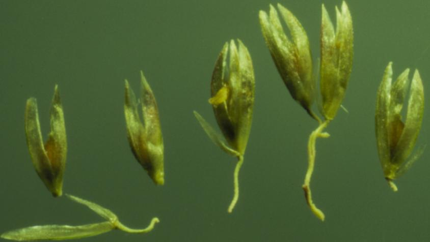 The first glume is much smaller than the second, which is about a long as the lemma and palea of the solitary floret.